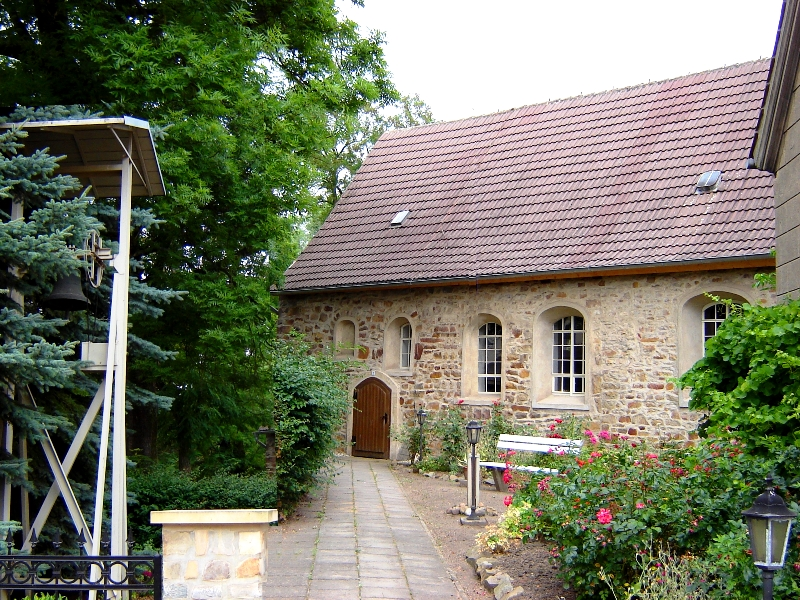 Church in Dannigkow (Saxony-Anhalt)